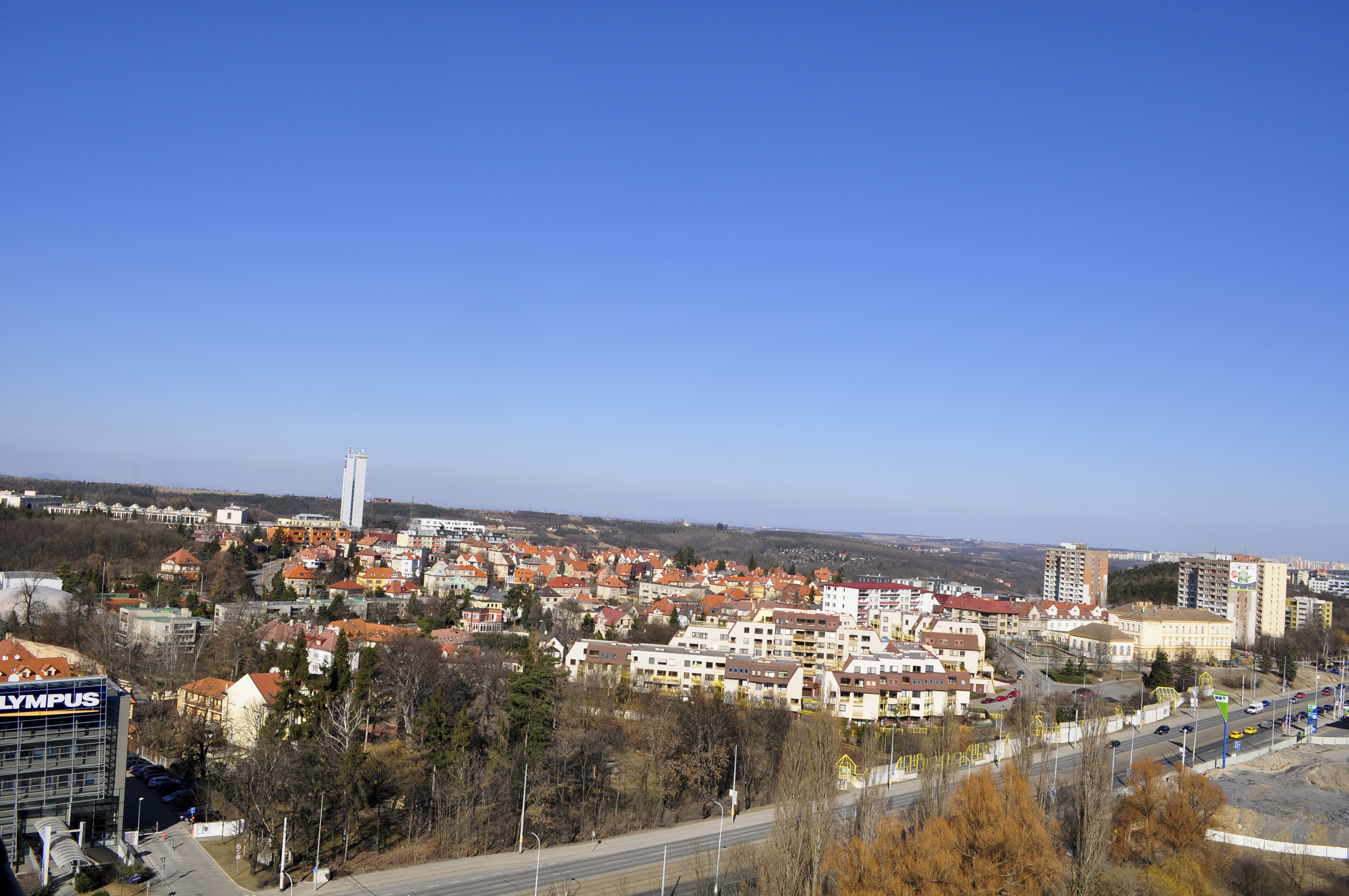 Panorama of the older part of Vokovice